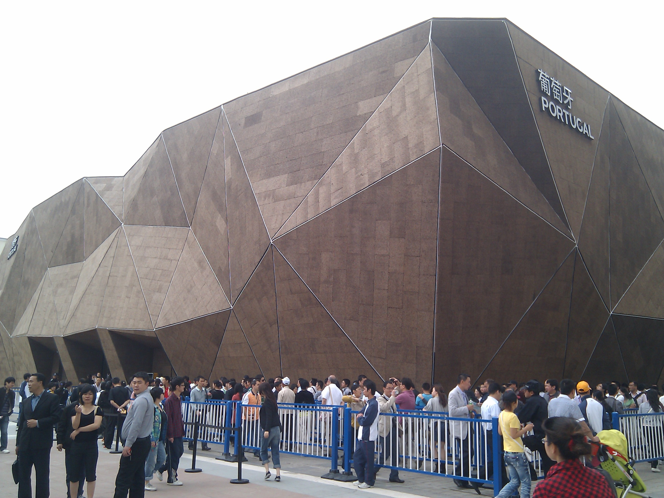 Portugal Pavilion of Expo 2010